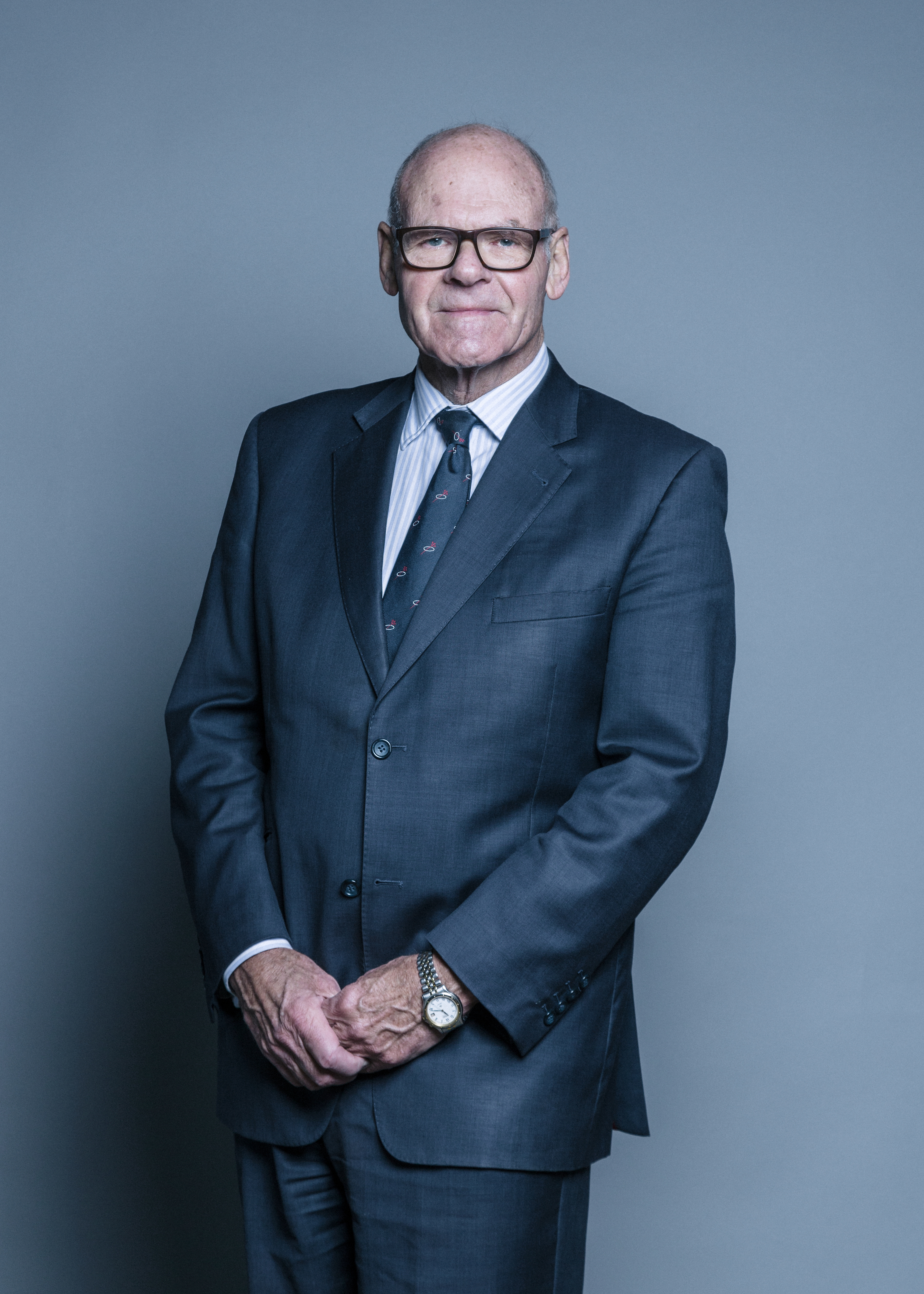 Official portrait of Lord Colwyn